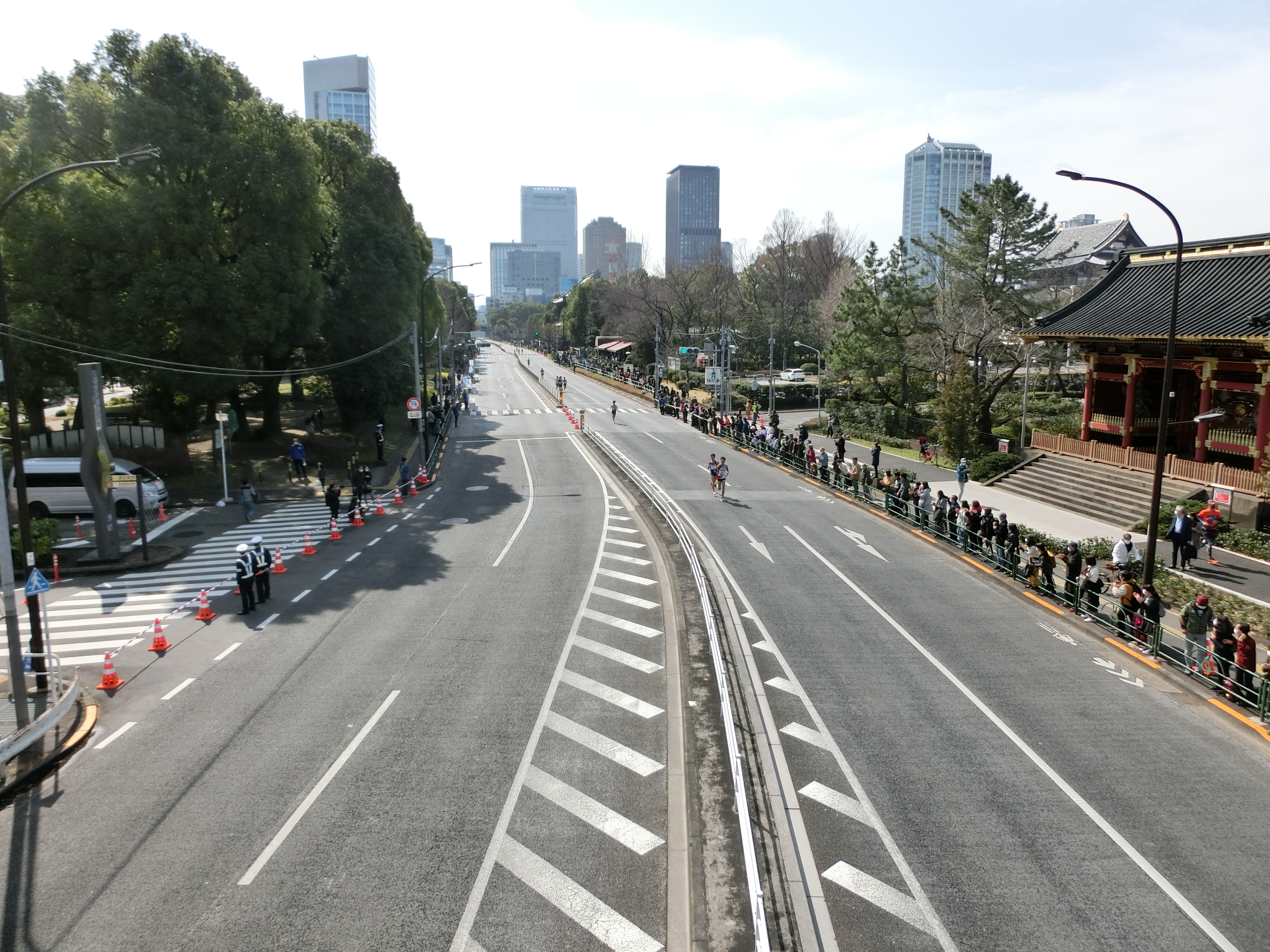 Tokyo Marathon 2020 (Hibiya-dori)